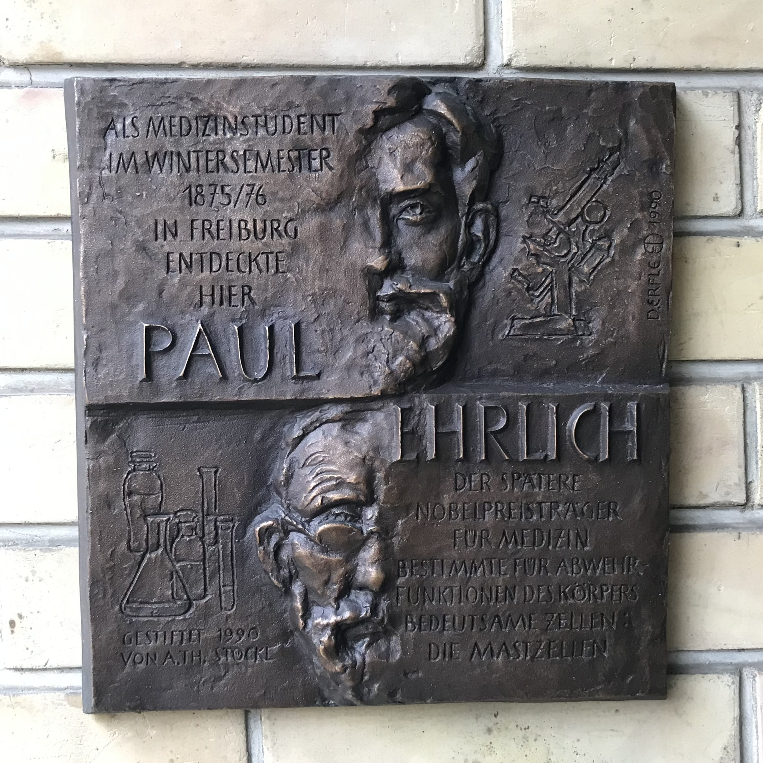 Commemorative plaque at the entrance of the anatomy institute (Albertstrasse 17, Freiburg, Germany) where Paul Ehrlich, as a medical student in the winter semester 1875/76, discovered the mast cells. Original [German]: Als Medizinstudent im Wintersemester 1875/76 in Freiburg endeckte hier PAUL EHRLICH der spätere Nobelpreisträger für Medizin bestimmte für Abwehrfunktionen des Körpers bedeutsame Zellen: Die Mastzellen. [English]: As a medical student in the winter semester of 1875/76 in Freiburg, PAUL EHRLICH, the later Nobel Prize winner for medicine, discovered certain cells that are important for the immune functions of the body: the mast cells.